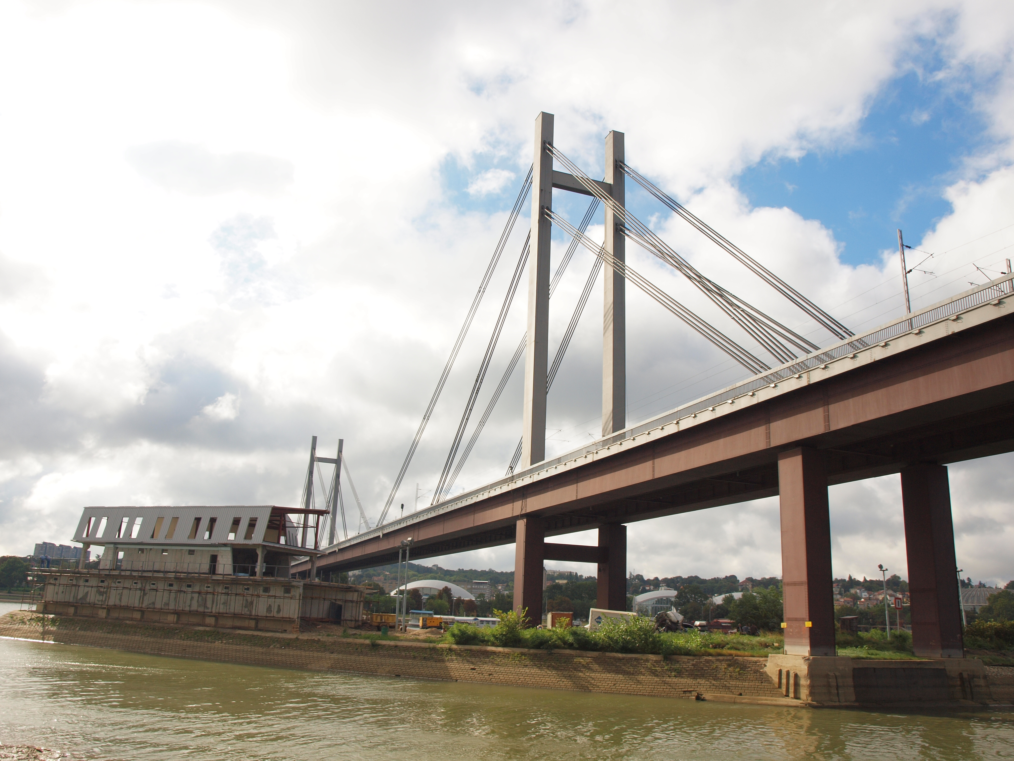 Novi Zeleznicki most Nikola Hajdin Ljubomir Jeftovic 1979